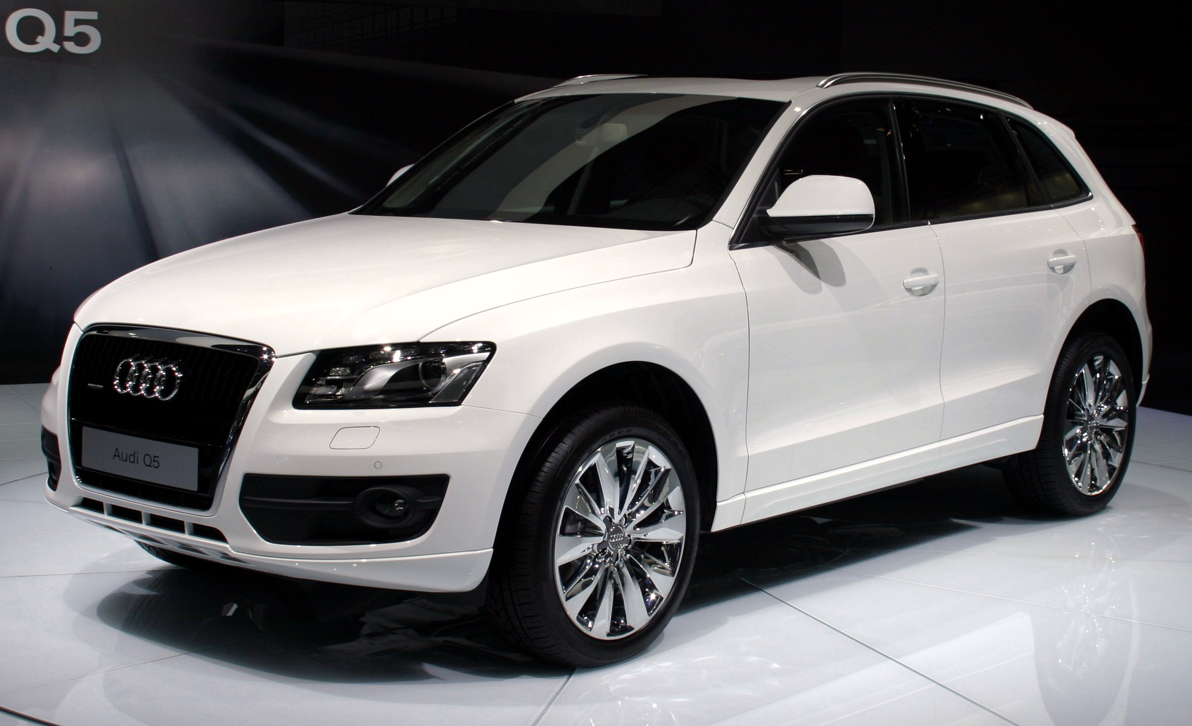 Audi Q5 at Moscow international autoshow, 27 august 2008